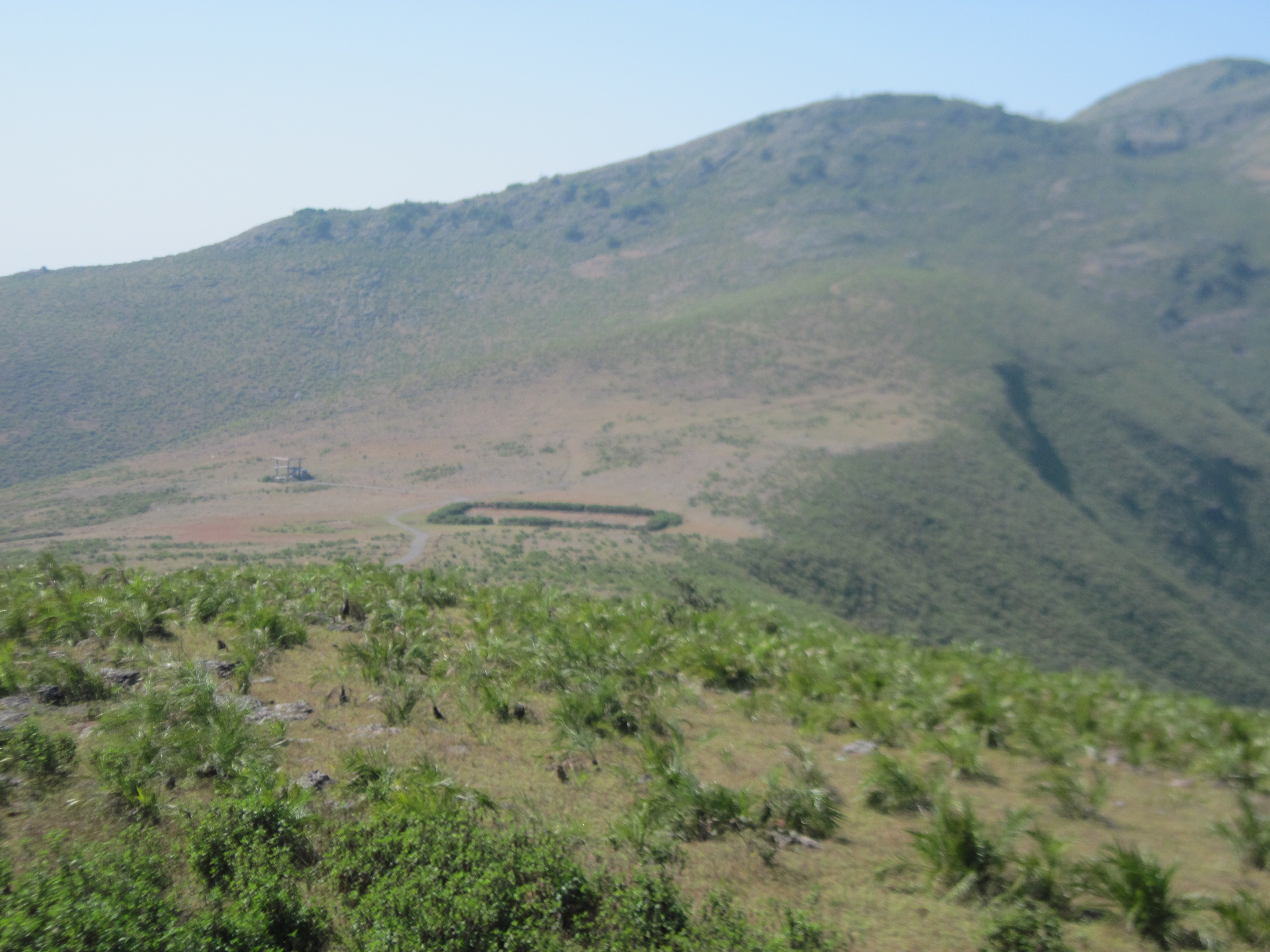 Deomali, Highest Mountain Peak in Orissa. Its around 1762 meters high. The scenic beauty around is excellent. Best time to visit this place is from October to January.